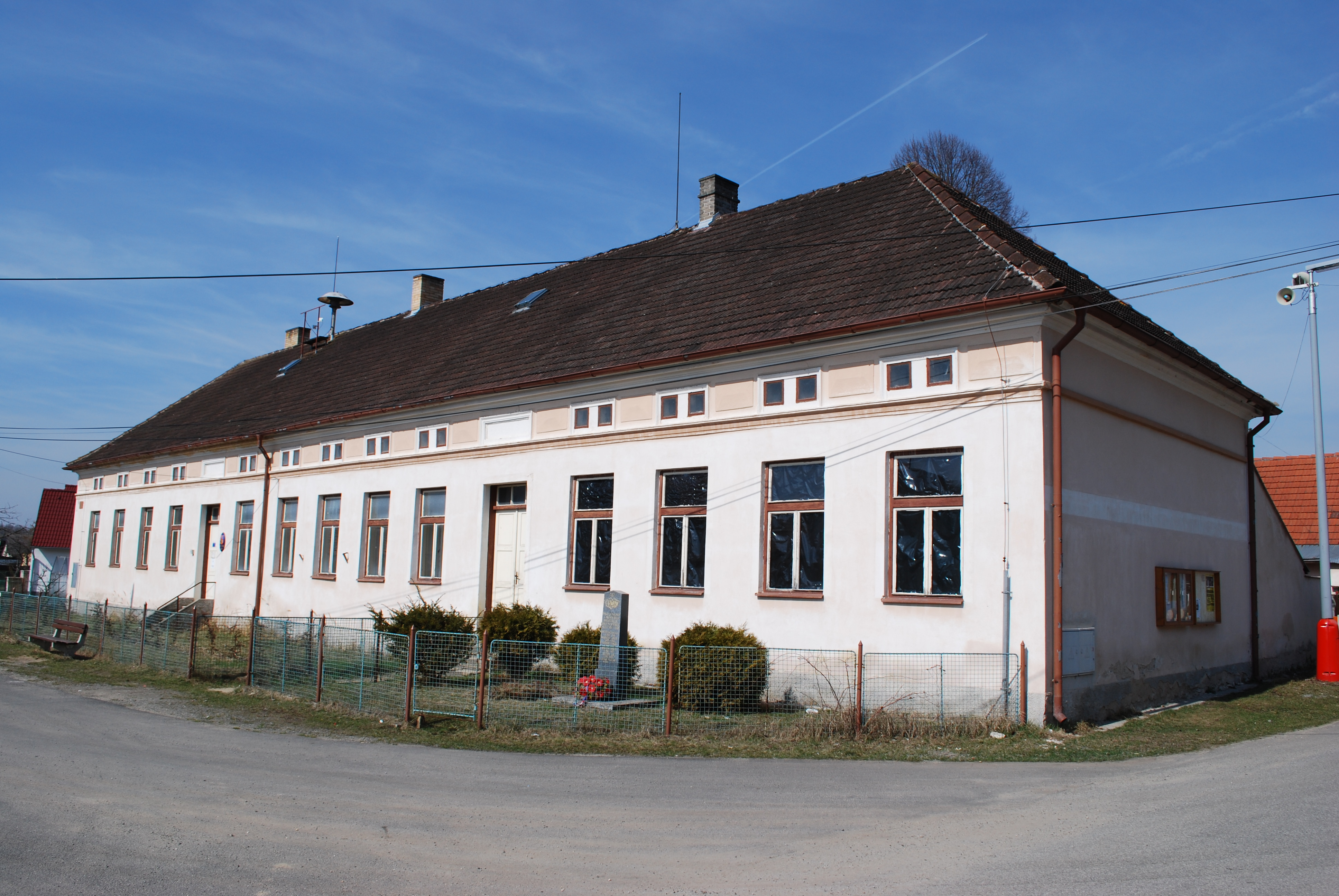 Vlkov village, Tábor District, Czech Republic. Building of municipality office with library. This photograph was taken within the scope of the 'Czech Municipalities Photographs' grant. - OpenStreetMap(Info)